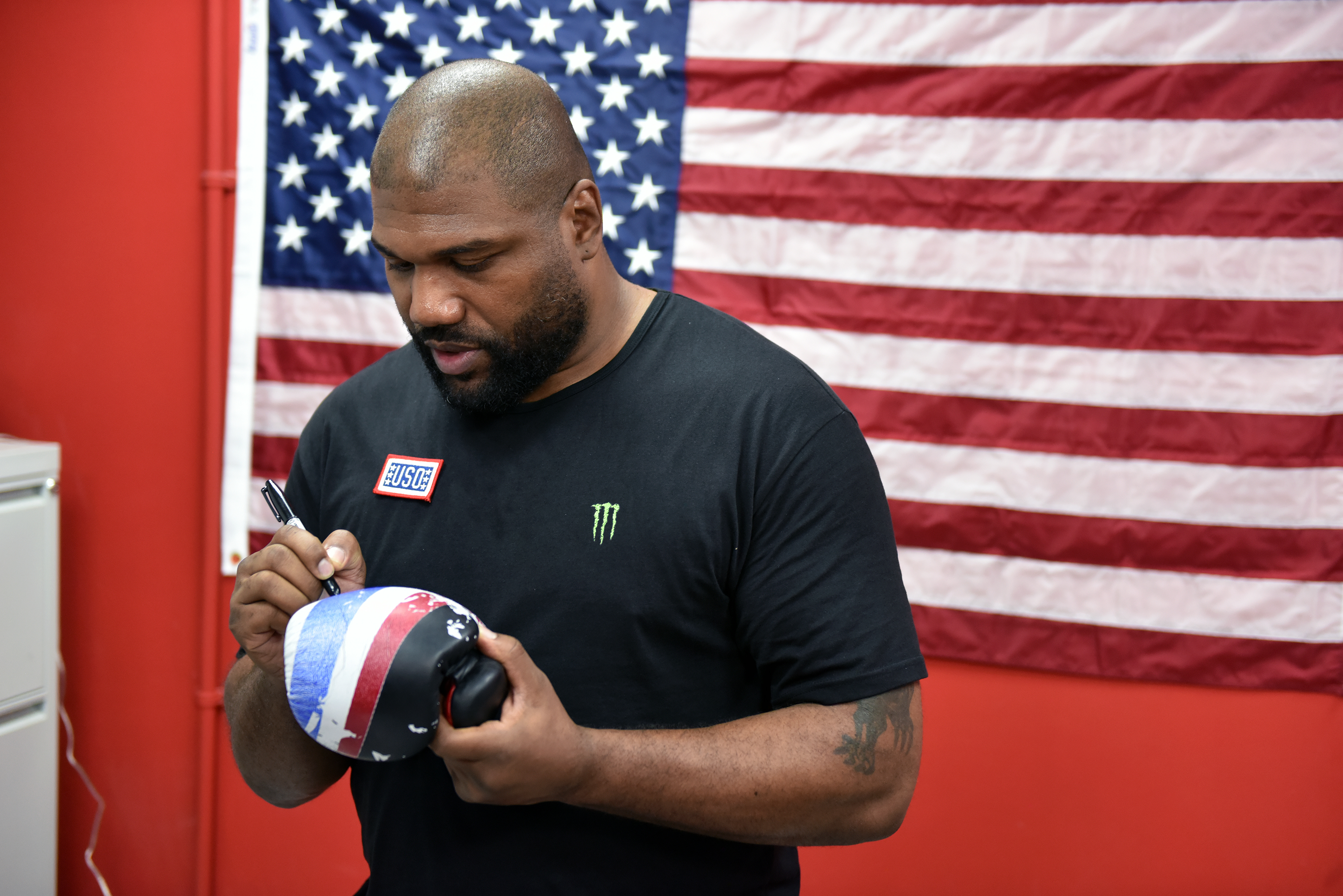 Quinton "Rampage" Jackson signs memorabilia for a service member, Camp Arifjan, Kuwait, July 6, 2019. Air Force Gen. Joseph Lengyel, chief of the National Guard Bureau, is hosting a USO Tour, visiting troops in six countries in three combatant commands. (U.S. Army National Guard photo by Sgt. 1st Class Jim Greenhill)